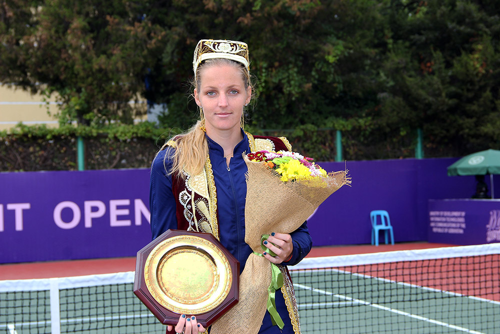 Pliskova after winning the 2016 Tashkent Open.